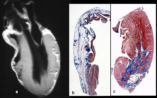 A 17 year old asymptomatic male athlete who died suddenly during a soccer game. Note the biventricular involvement at long axis in vitro MRI (a), with transmural fibro-fatty replacement in the RV free wall (b) and focal subepicardial in the LV free wall (c).